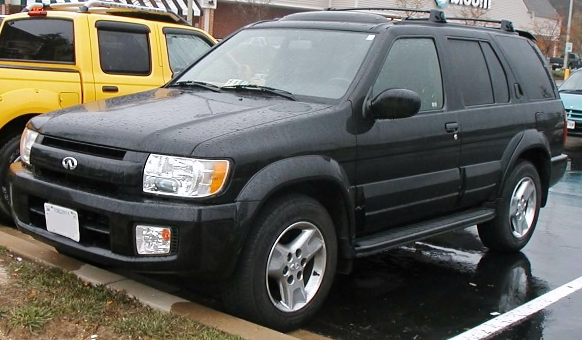 Infiniti QX4 photographed in USA.